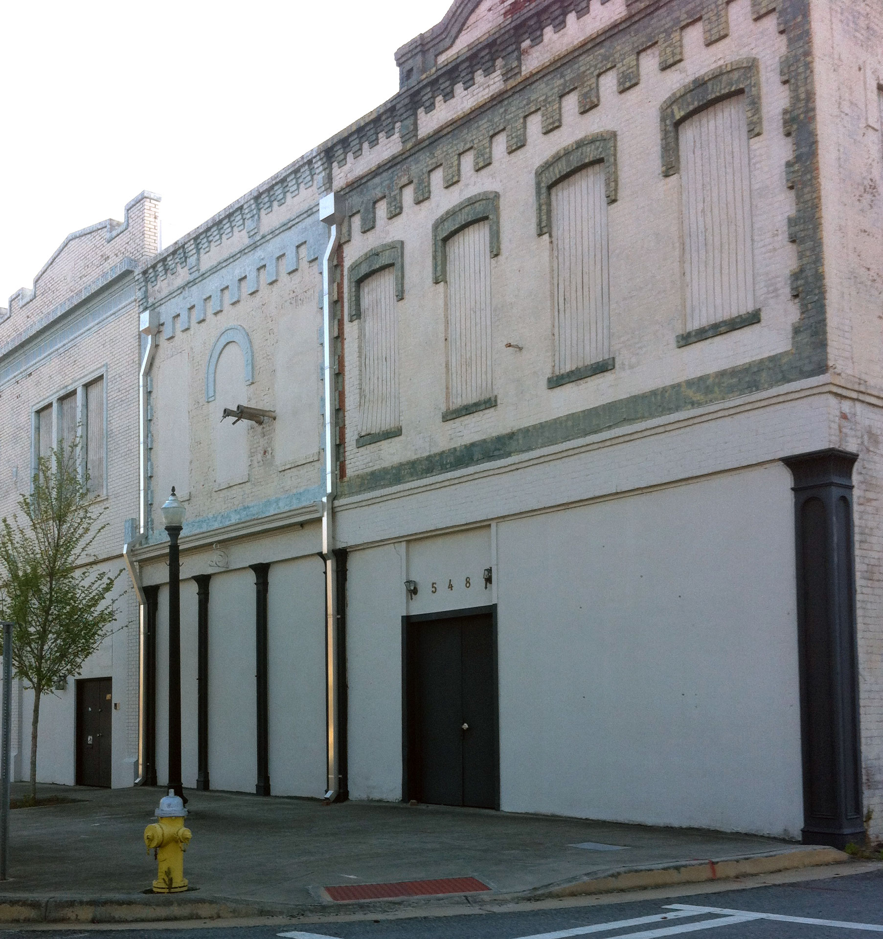 The former location for Capricorn Sound Studios in Macon, Georgia, April 2014.